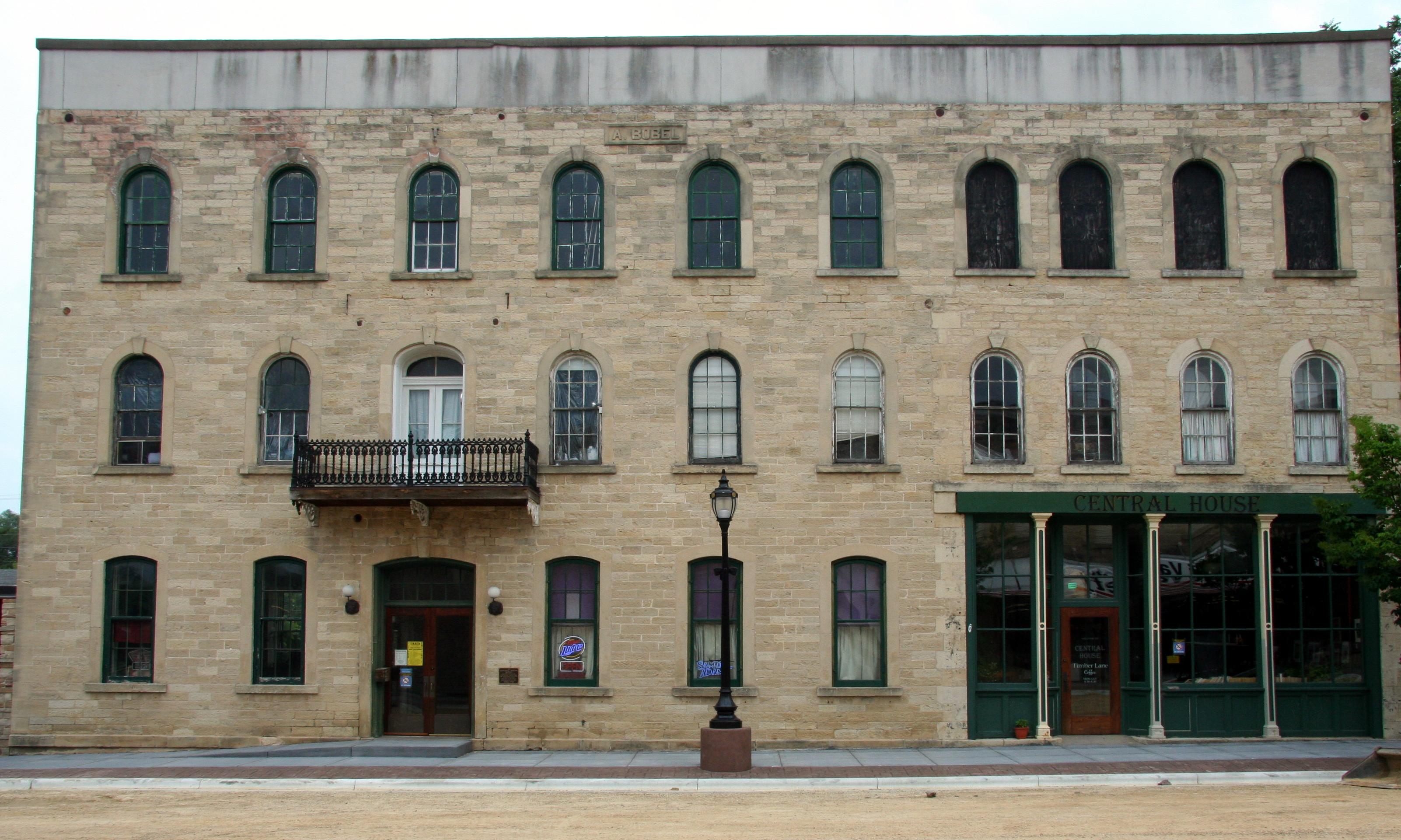 Central House Hotel, 1005 Wisconsin Avenue, Boscobel, Wisconsin